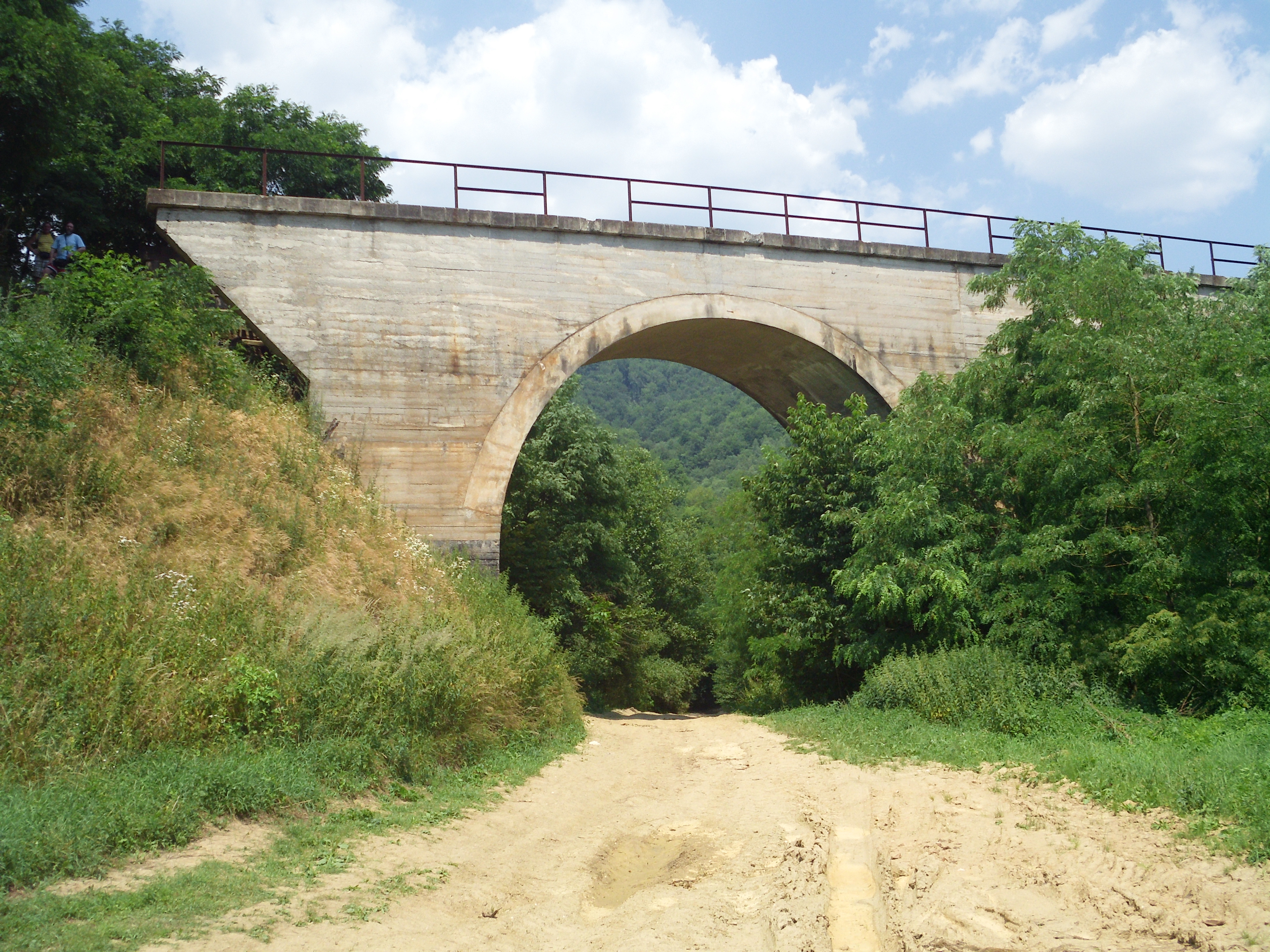 A side view of "Koprášsky viadukt", a bridge on an unfinished rail line from Lubeník to Slavošovce in Slovakia. It is named after a nearby village of Kopráš, a part of Magnezitovce municipality..